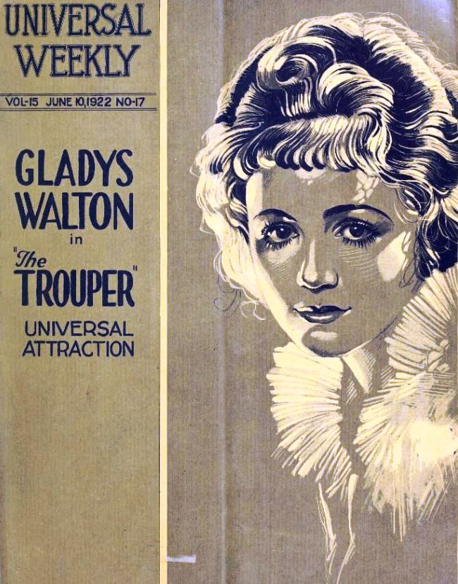 Advertisement for the American comedy drama film The Trouper (1922) with Gladys Walton, on the cover of the June 10, 1922 Universal Weekly.